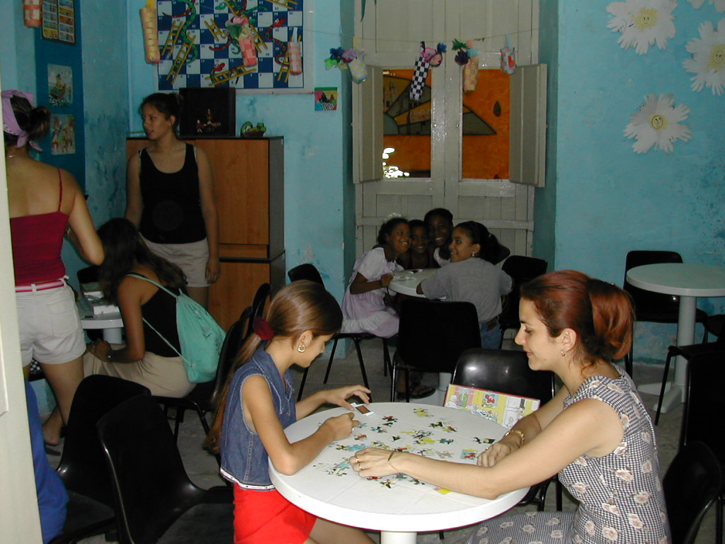 Daycare/youth center in Havana where children can hear stories, play games, do art, etc. Cuatro Caminos, Ciudad de la Habana, Cuba.